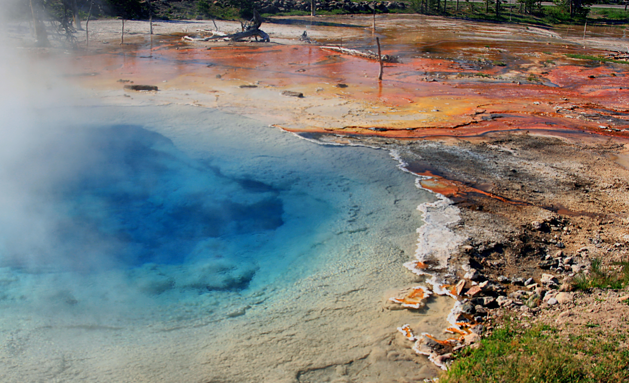 Silex spring in Yellowstone National Park.Hot water is a better solvent than cooler water; it dissolves large amounts of silica, the major element of these volcanic rocks. Silica, in the form of sinter, lines the bottom of Silex spring. It forms terraces along the runoff channels and gives the spring its name: Silex is Latin for silica.Silex Spring overflows most of the year. This overflow creates a hot environment where thermophiles thrive. Thermophiles become food for several kinds of flies that live in and on the hot water. The flies then become food for mites, spiders, various insects and birds